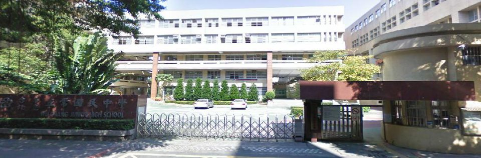 The entrance of Taipei Municipal Wuchang Junior High School.